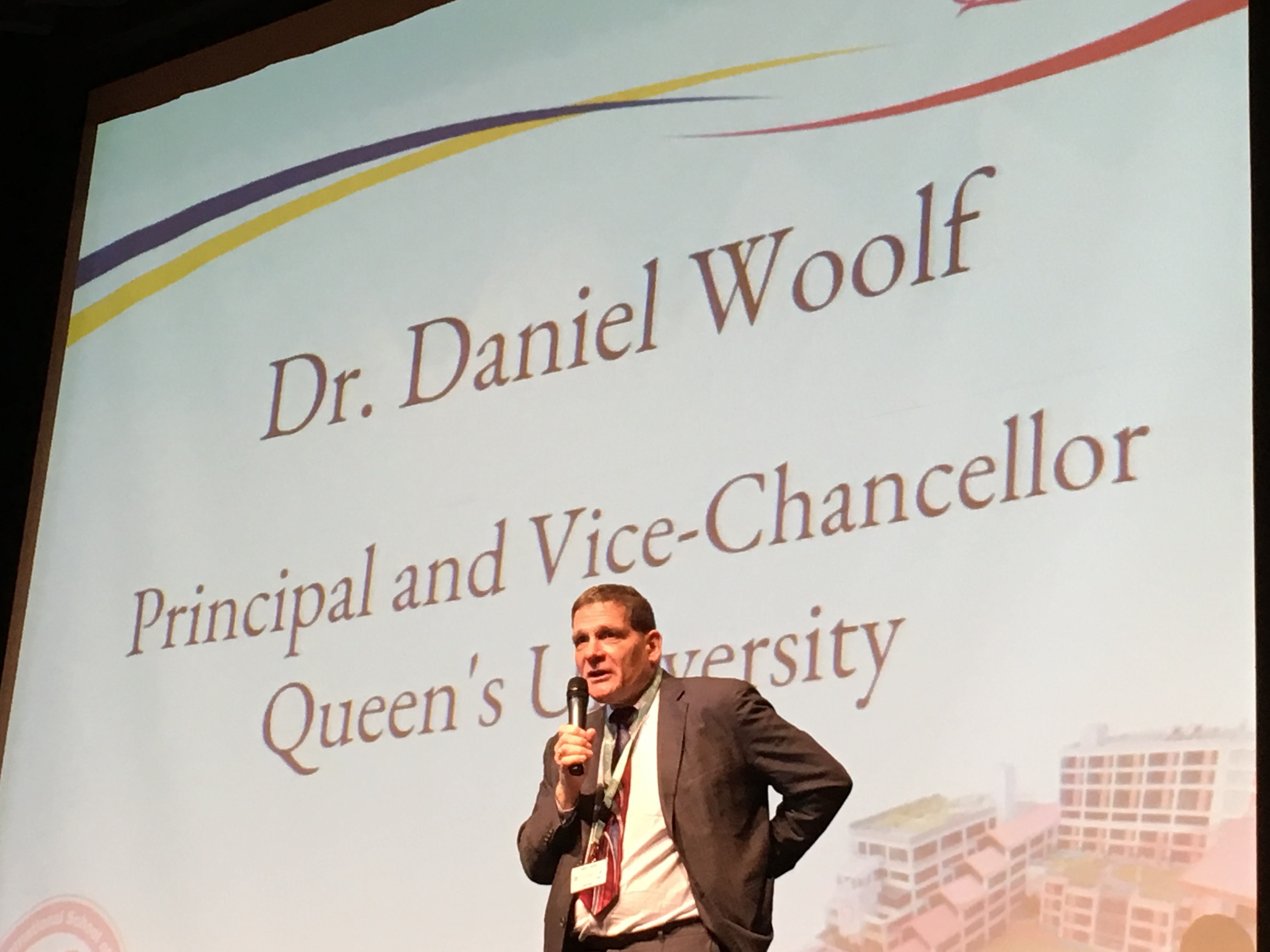 A picture of Daniel Woolf